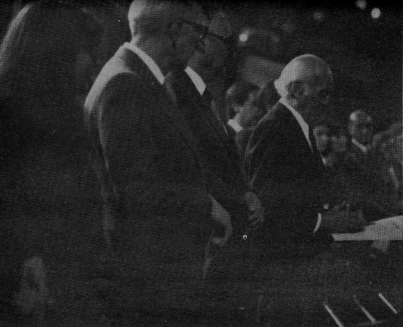 Elías Nandino recibe el Premio Nacional